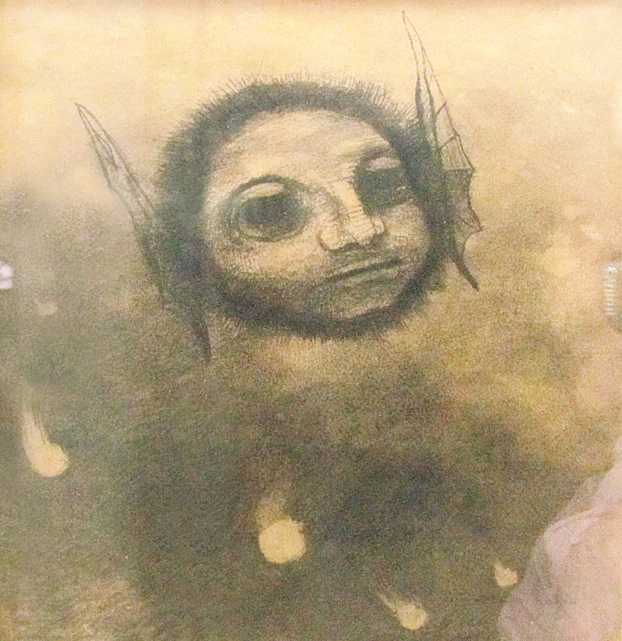 Odilon Redon, Gnome ca. 1879, charcoal on paper, National Museum, Belgrade